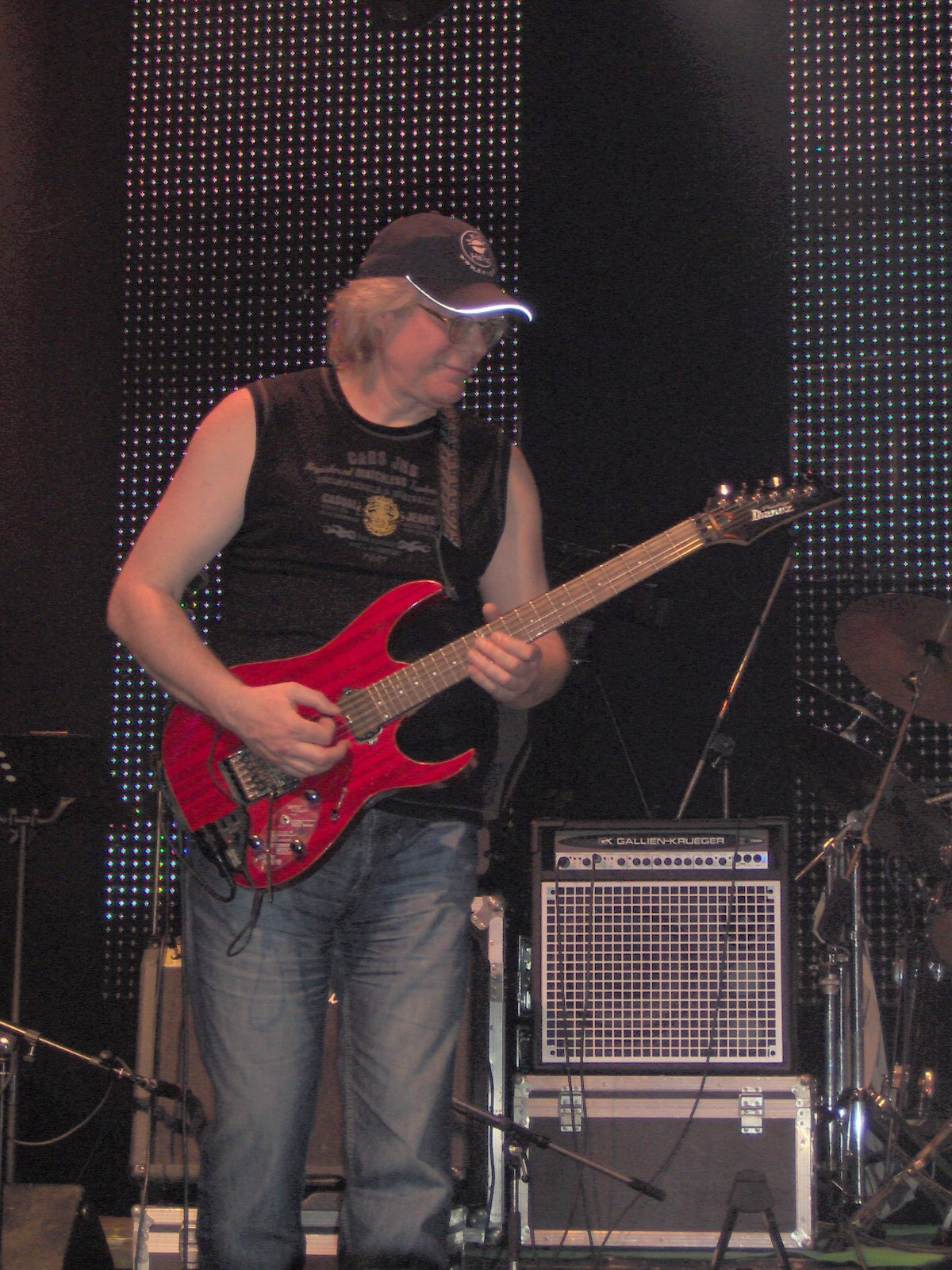 Miloš Morávek, Czech guitarist, Brno, Czech Republic